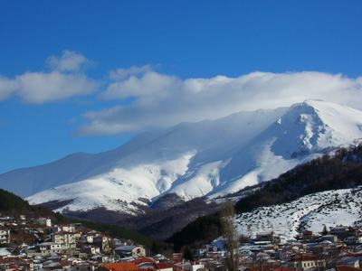 Mountain Askio (Siniatsiko) at Ptolemaida, Kozani prefecture, Greece.